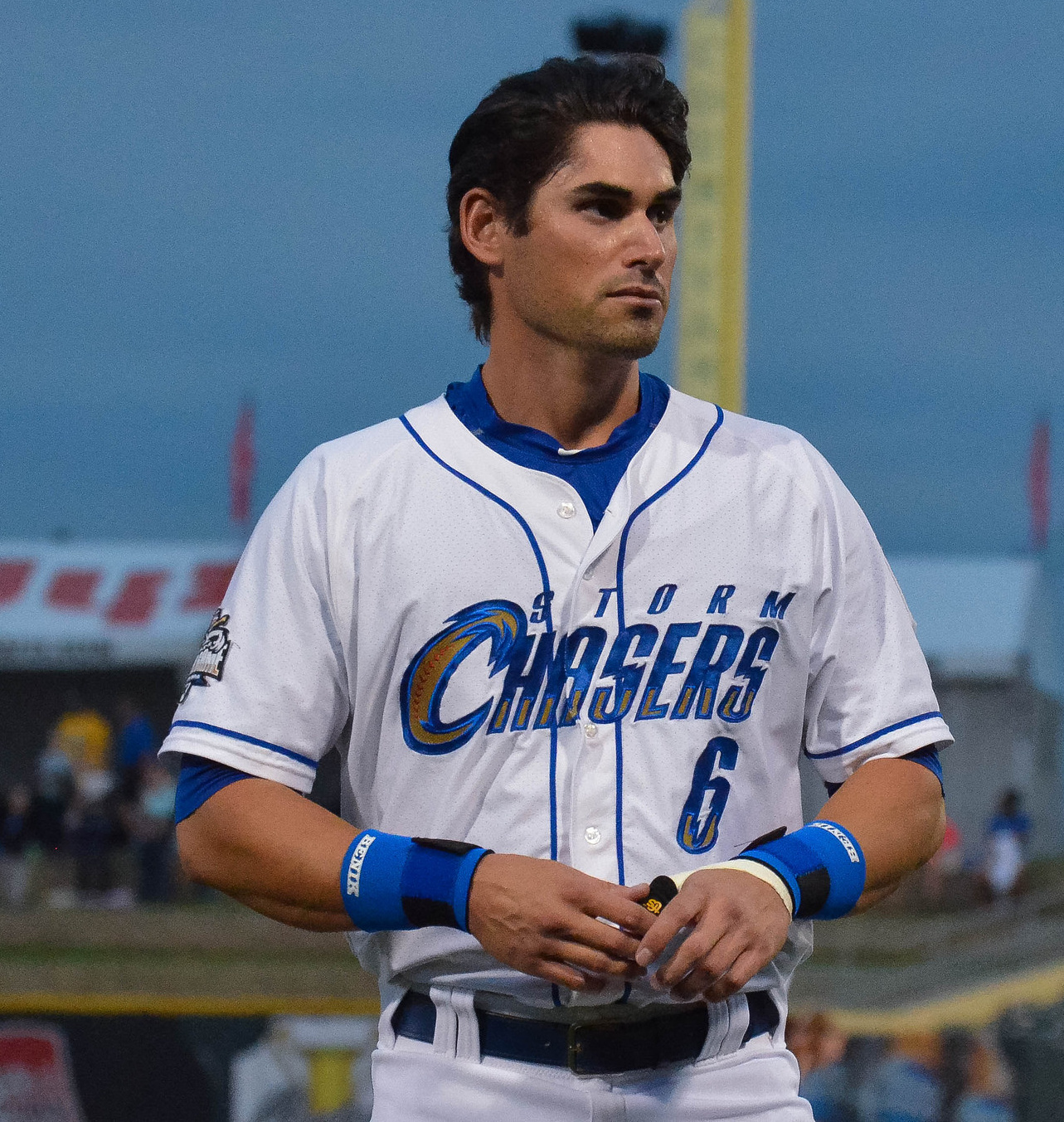 Brett Eibner with the Omaha Storm Chasers in 2015